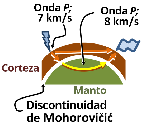 Refraction of P-wave in Spanish